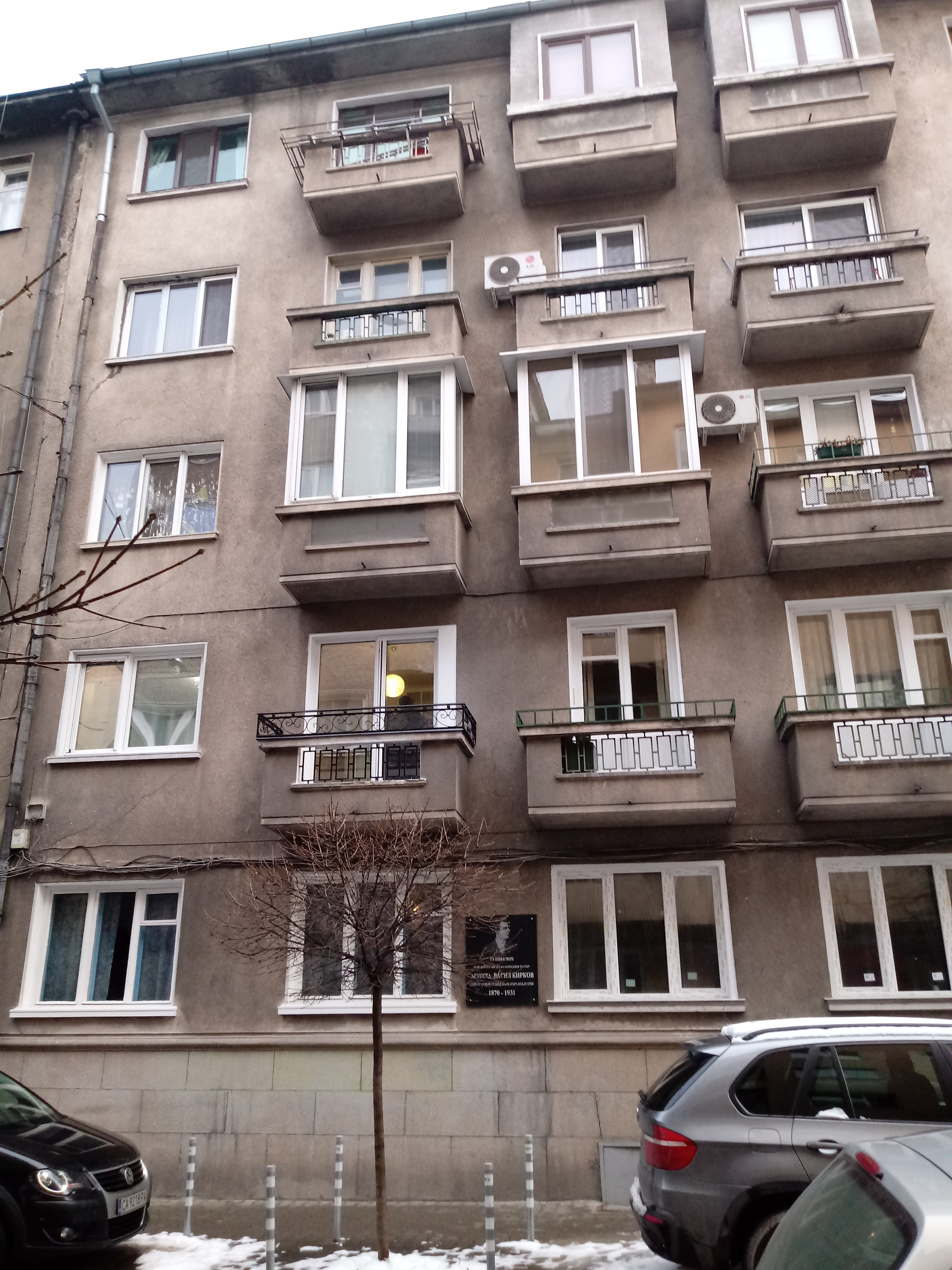 Vasil Kirkov home with memorial plaque, 26 Parensov Str., Sofia